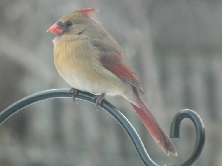 male Northern Cardinal